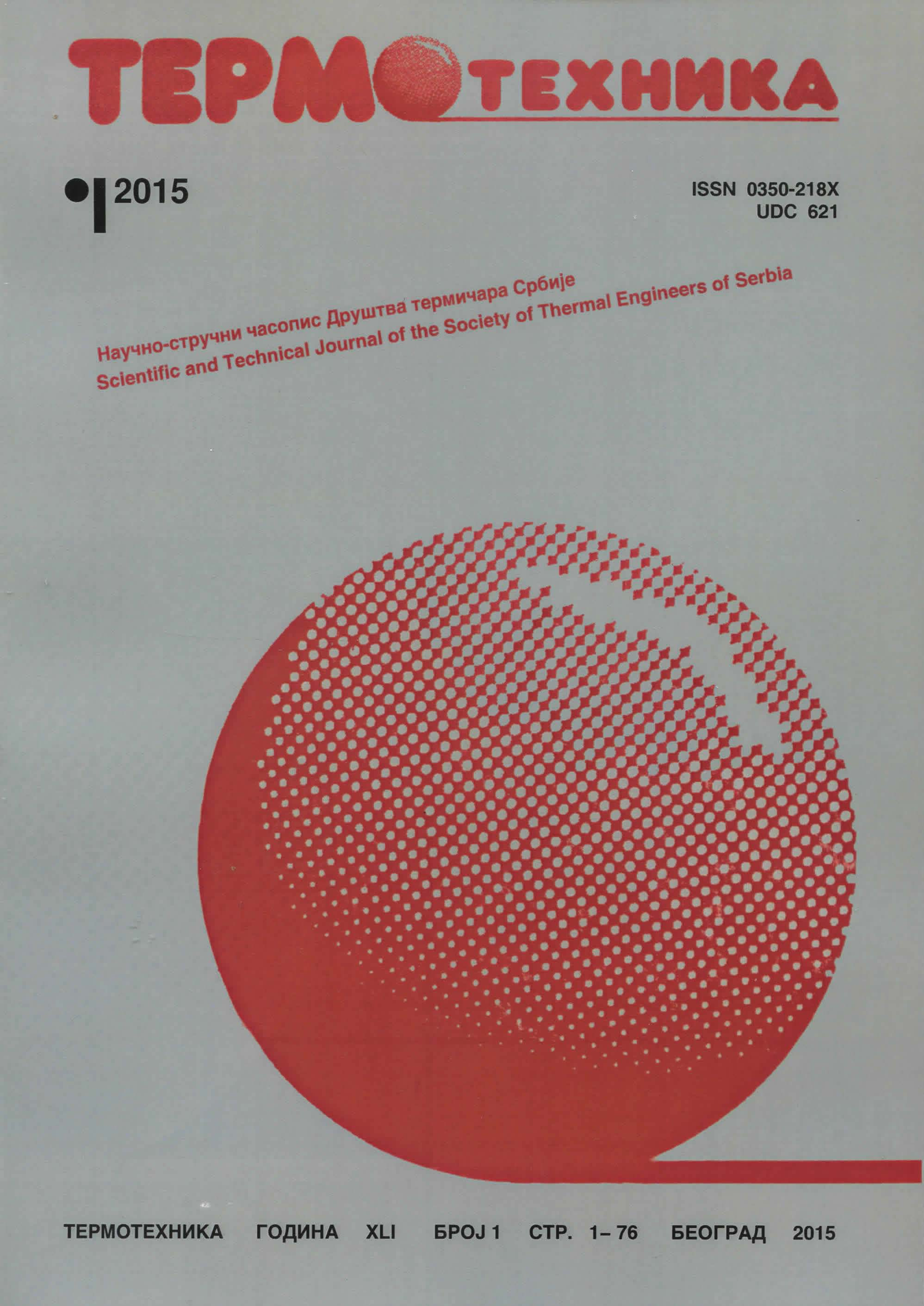 Cover of scientific journal Termotehnika from Vinča Institute of Nuclear Sciences, University of Belgrade, Serbia